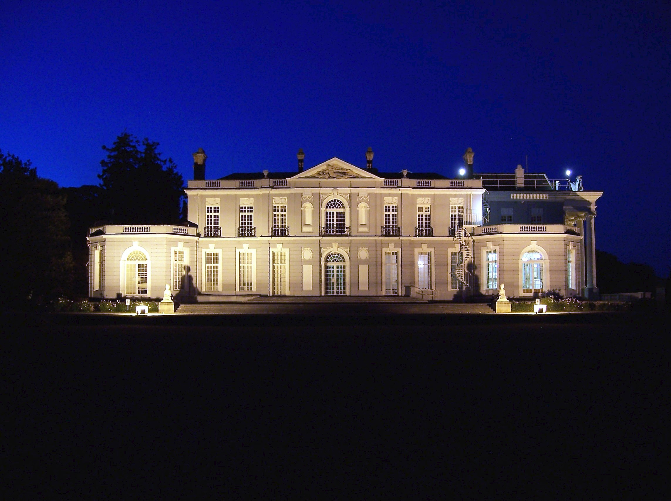 View of Oldway mansion at Dusk